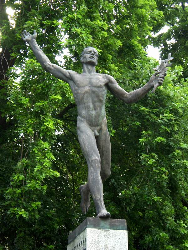 Memorial of the International Peace Marathon